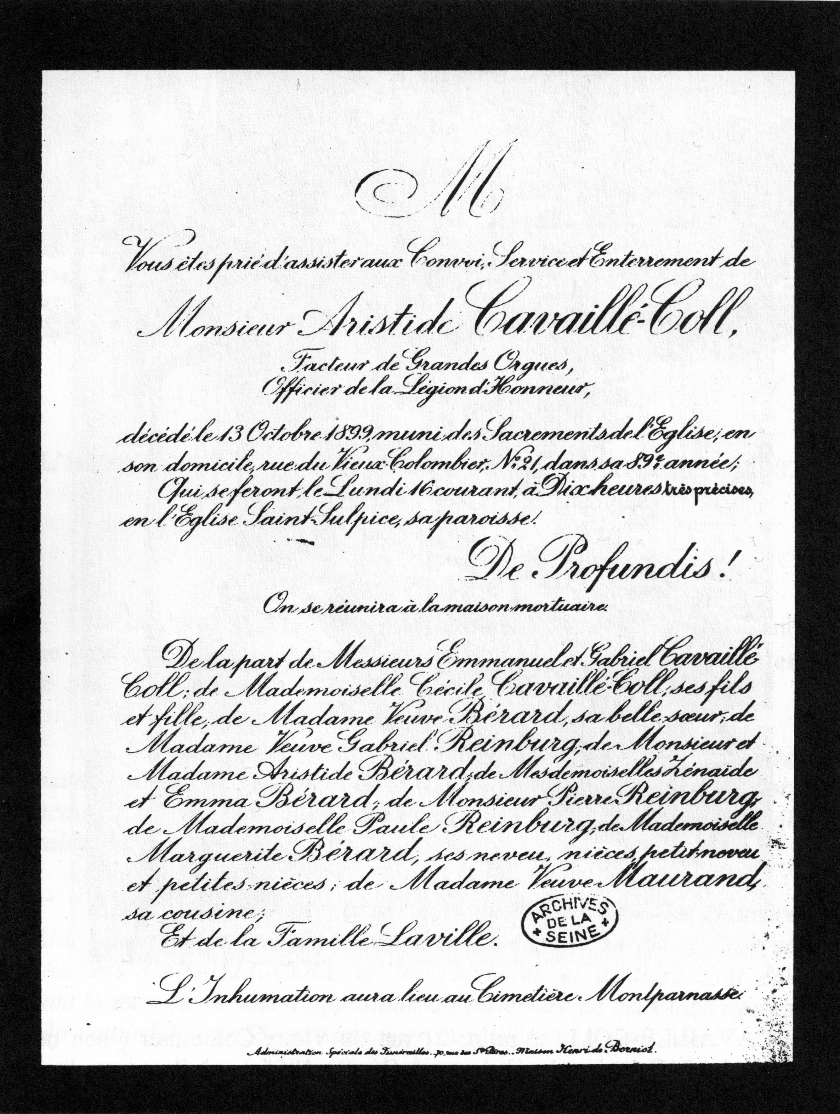 Aristide Cavaillé-Coll - Obituary